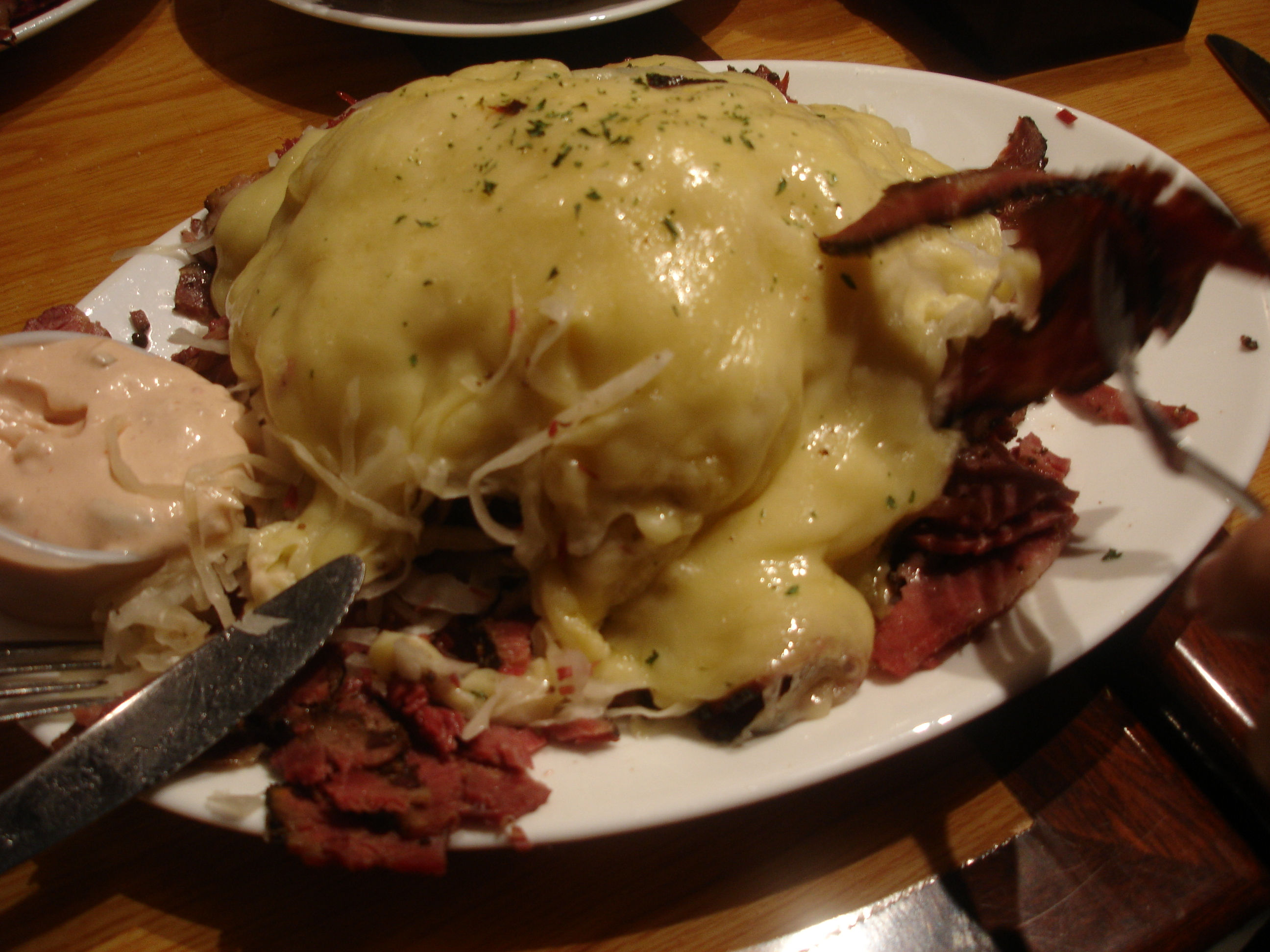 A Reuben sandwich from the Carnegie Deli.